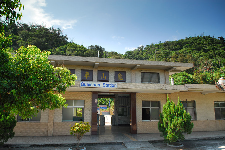 GueiShan Station is a small local train station of Yilan Line, part of Taiwan's eastern rail line. It's located within the boundary of TouCheng Town, YiLan County.